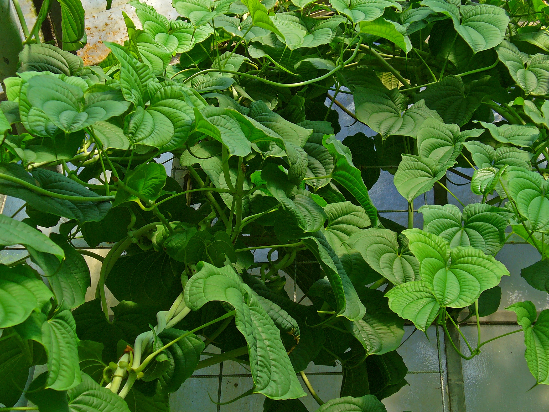 Dioscorea esculenta, Dioscoreaceae, Lesser Yam, Asiatic Yam, habitus; Botanical Garden KIT, Karlsruhe, Germany.